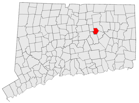 Location of Andover, Connecticut